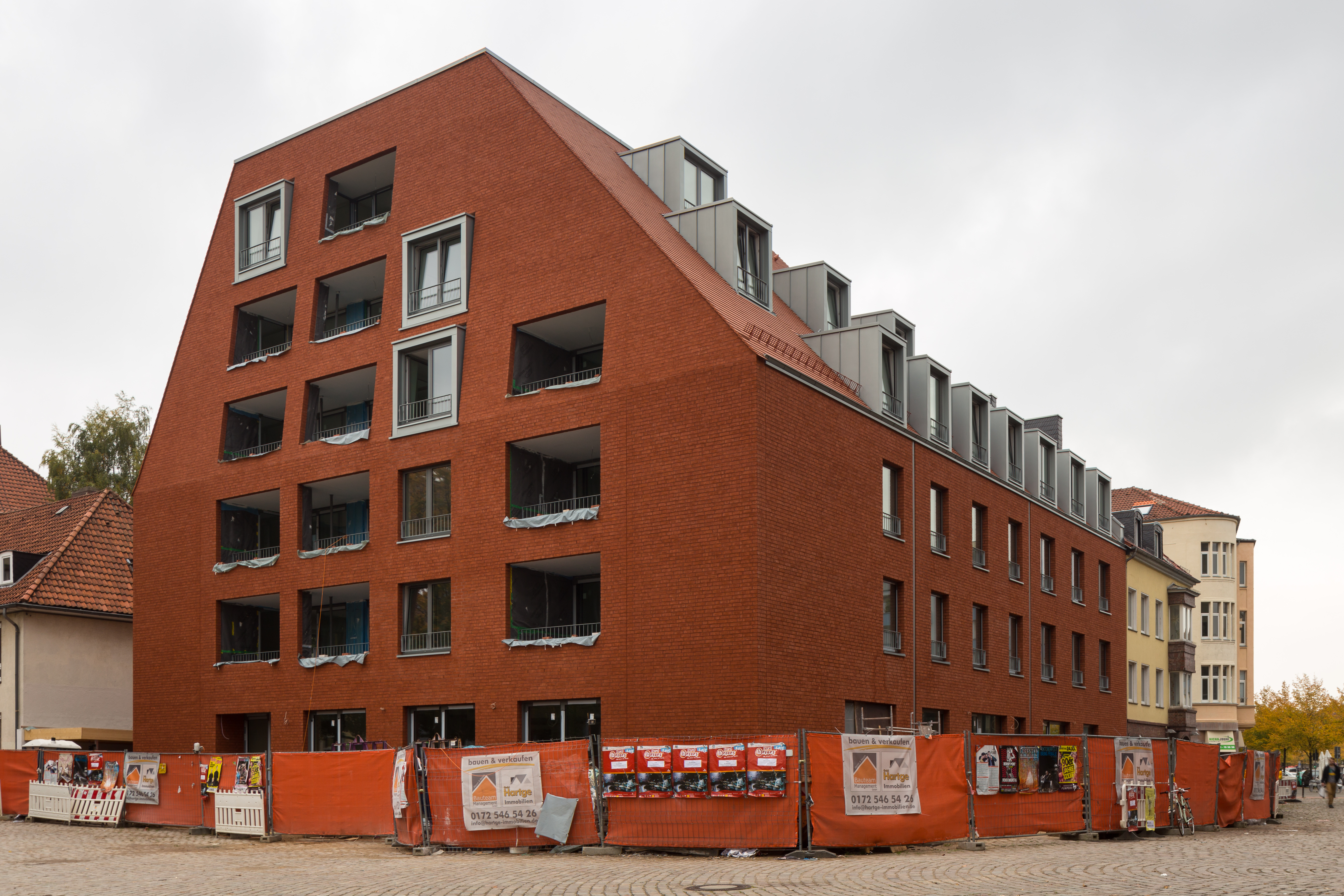 Apartment house during construction located at Conrad-Wilhelm-Hase-Platz square in Nordstadt quarter of Hannover, Germany.